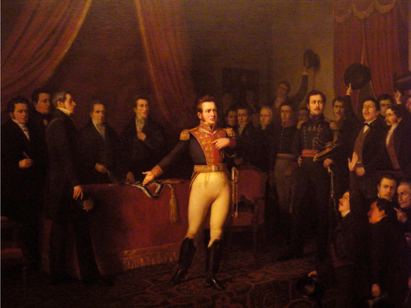 Abdication of Bernardo O'Higgins by Chilean painter Manuel Antonio Caro. The scene shows the climax in which O'Higgins abdicates, surrounded by 24 characters. After a recent restoration, it was discovered that Caro deleted a figure behind O'Higgins, but the identity of the erased figure remains a mystery See .